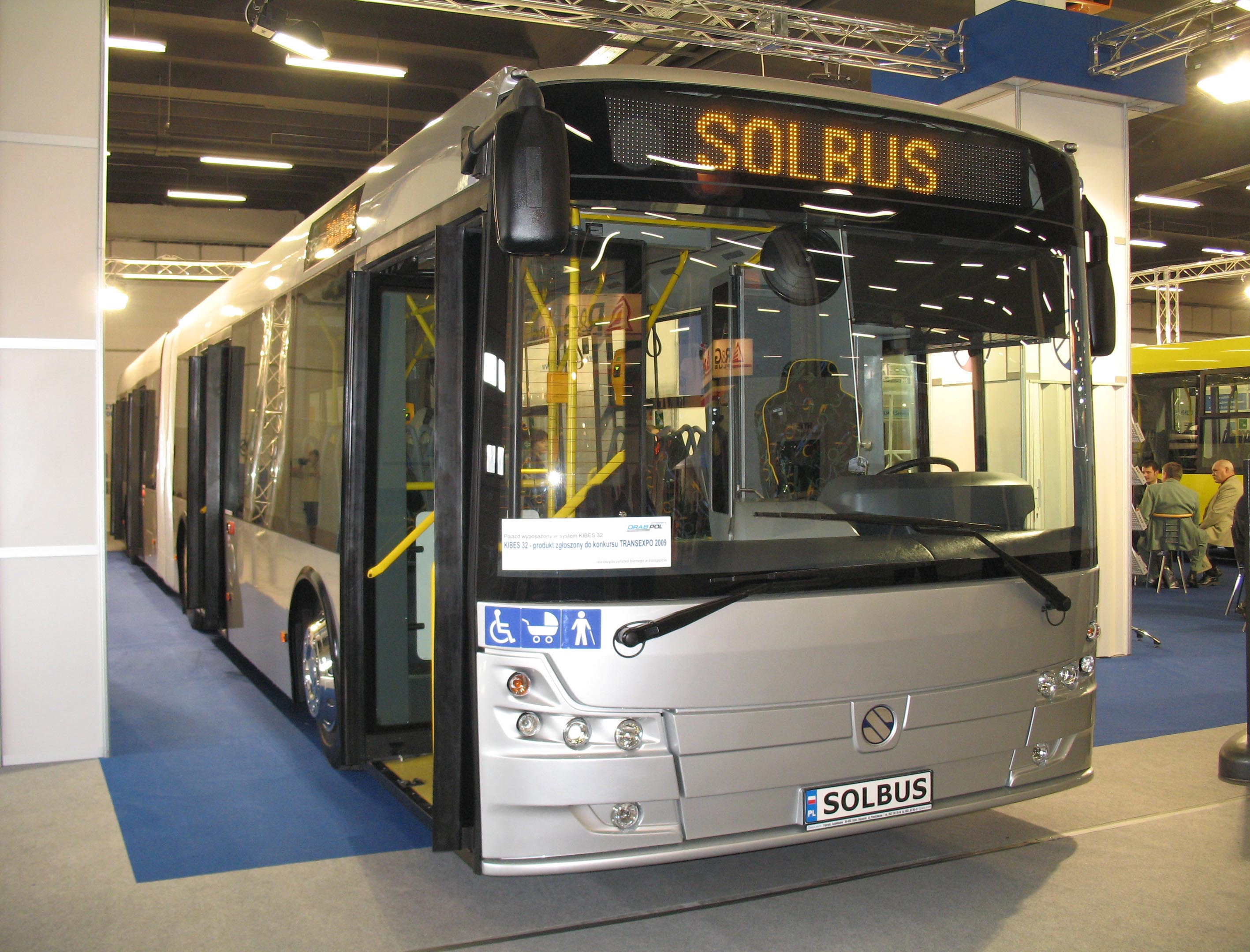 Solbus Solcity 18 articulated city bus (SM series) in Kielce, Poland. Built 2009. Transexpo 2009.